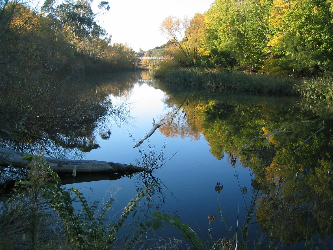 Queanbeyan River and heritage listed suspension footbridge, Queanbeyan, NSW